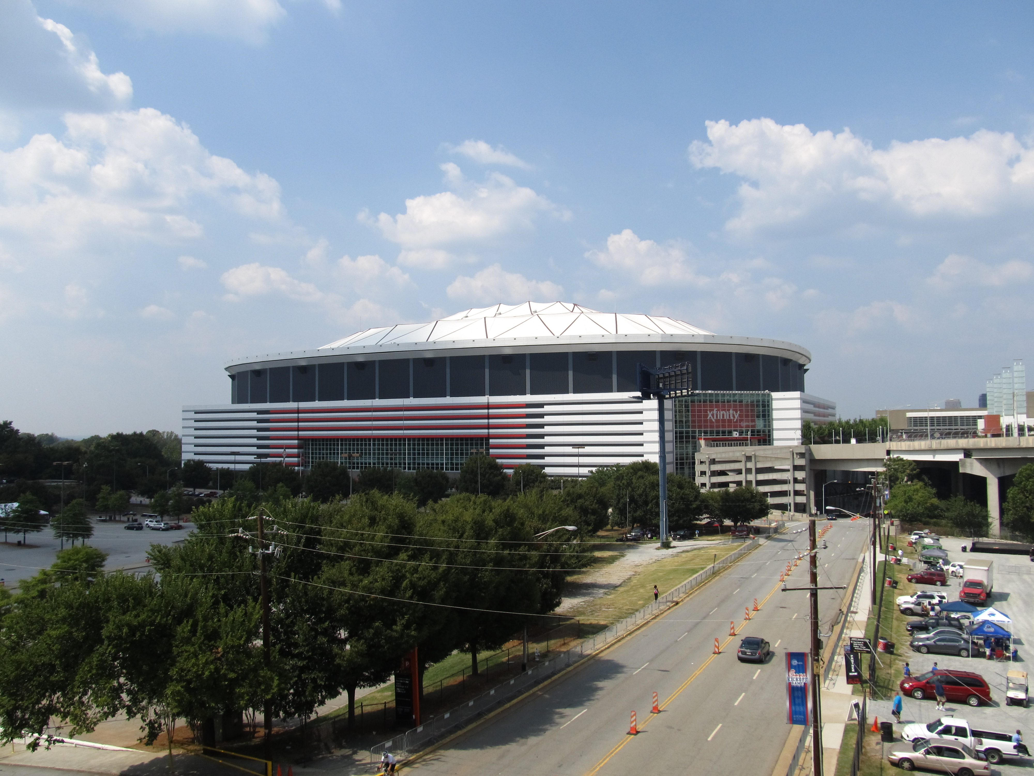 Exterior shot of Georgia Dome, 2011